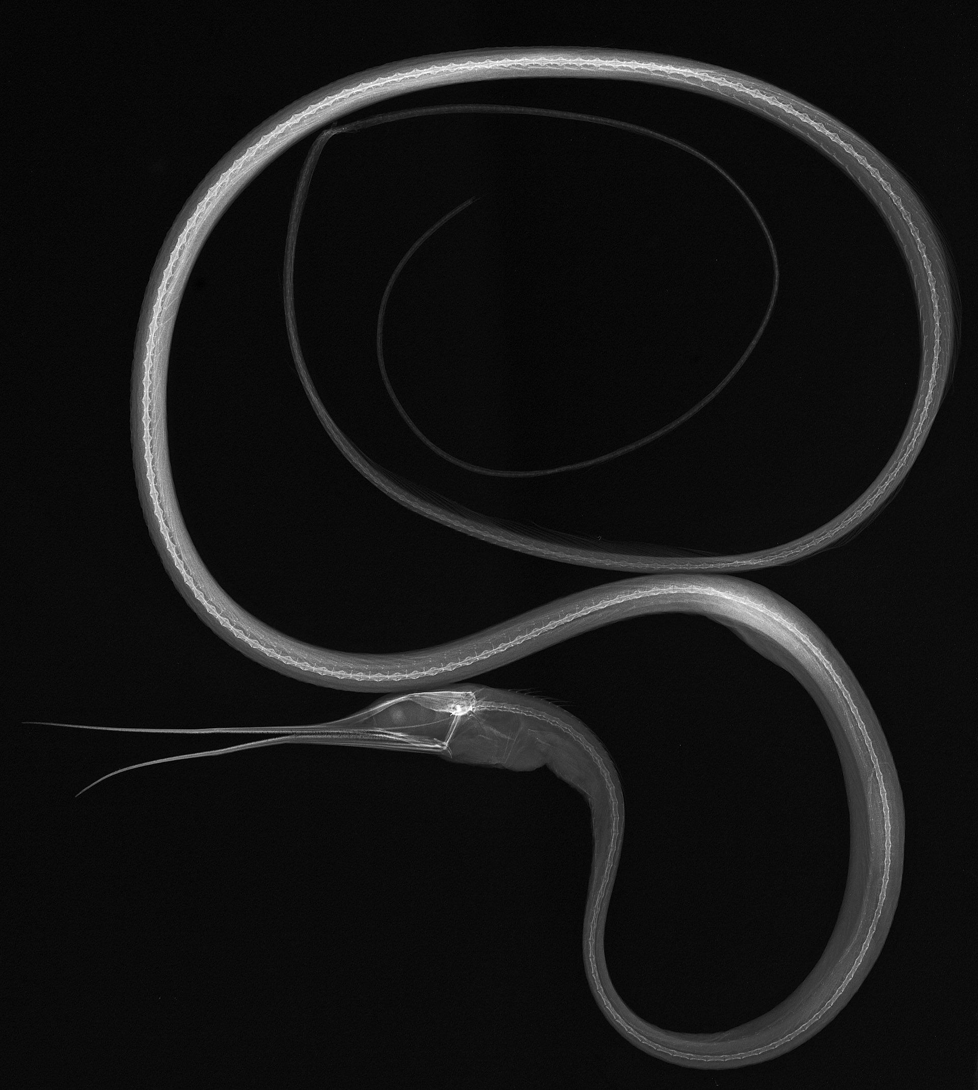 Nemichthys scolopaceus, X-ray image